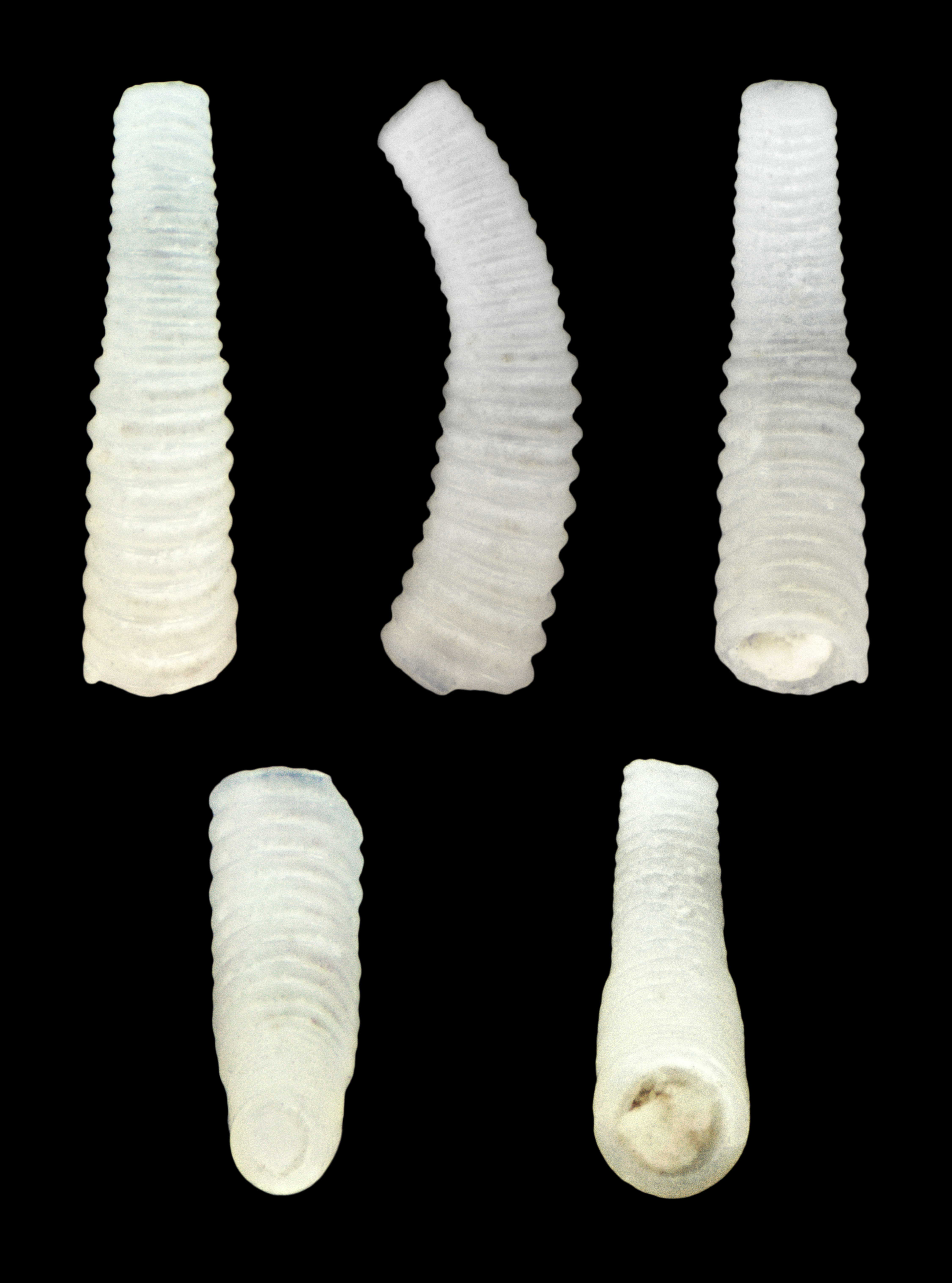 Caecum sepimentum de Folin, 1868, subadult; Length 0.2 cm; Originating from Pointe aux Canonniers, Mauritius; Shell of own collection, therefore not geocoded.